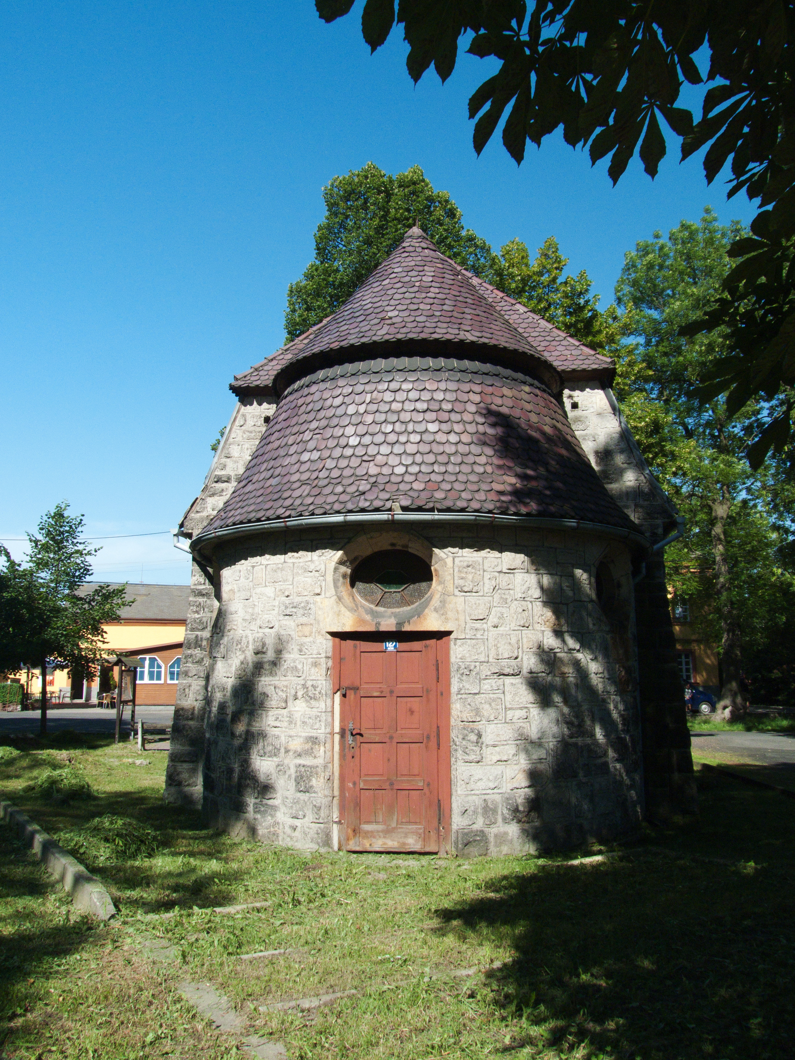 Chapel in the village of Sněžník, part of the town of Jílové, Děčín District, Czech Republic as seen from the east